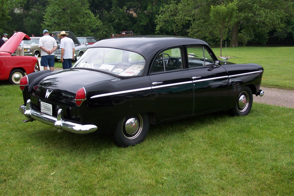 1952-1954 Willys Aero Lark DeLuxe